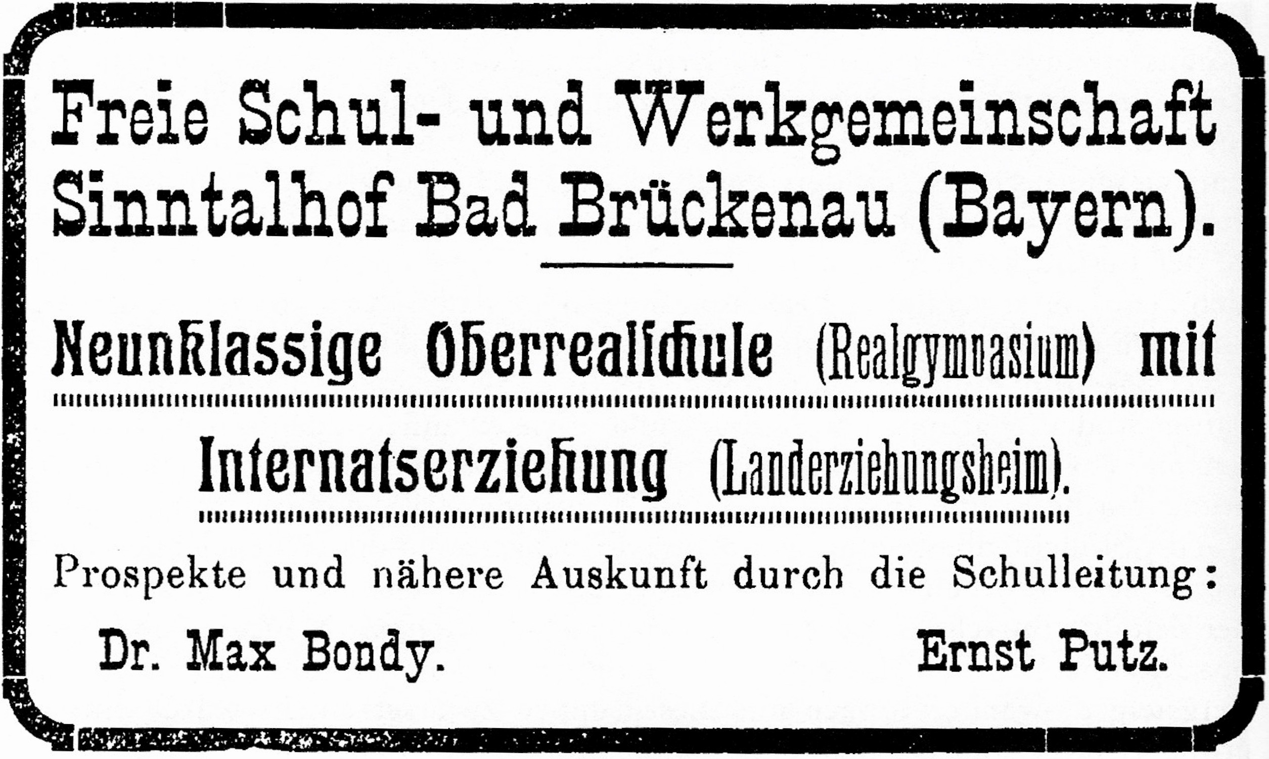 Advertising of Freie Schul- und Werkgemeinschaft Sinntalhof in 1920